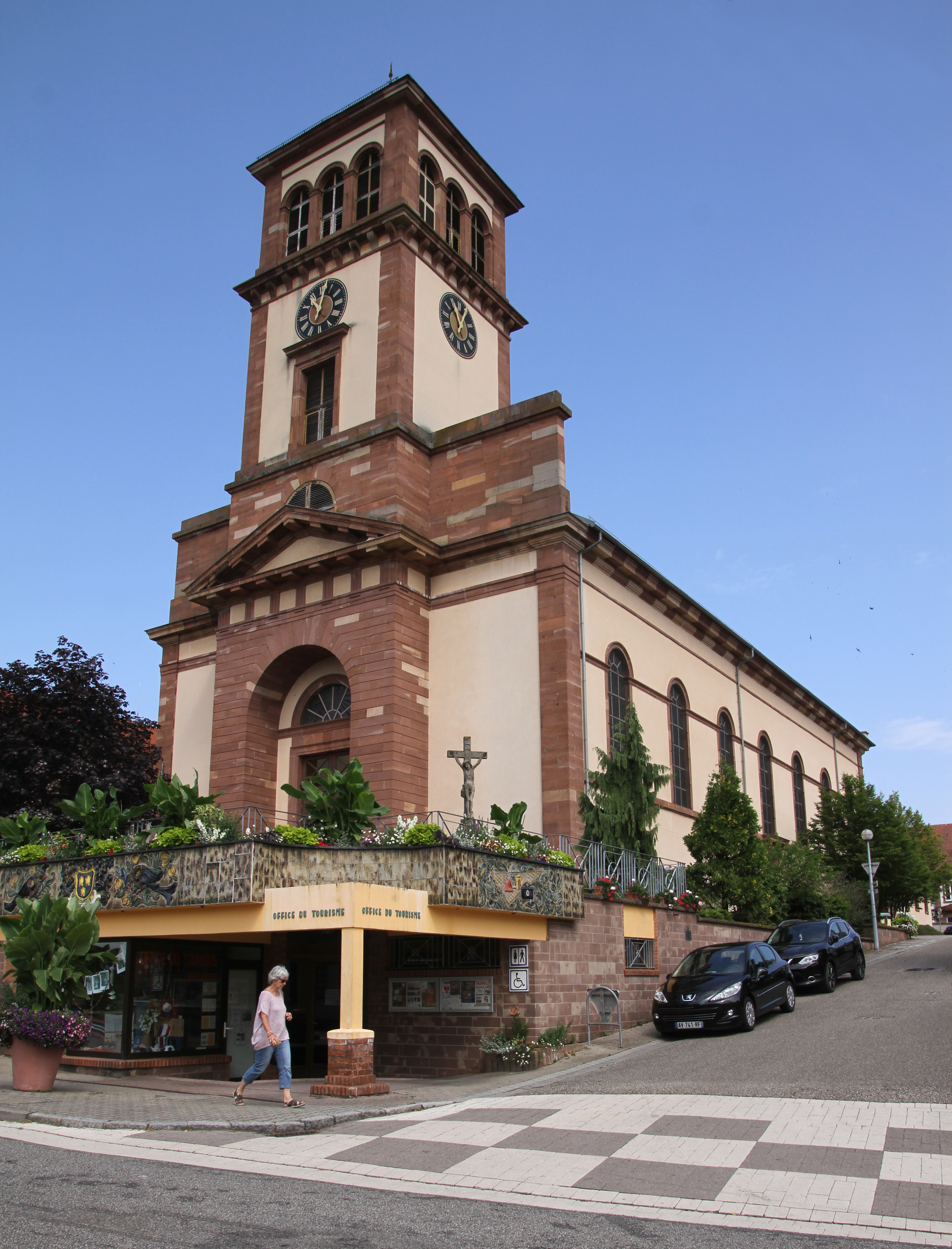 Church of Saint Michael in Soufflenheim.